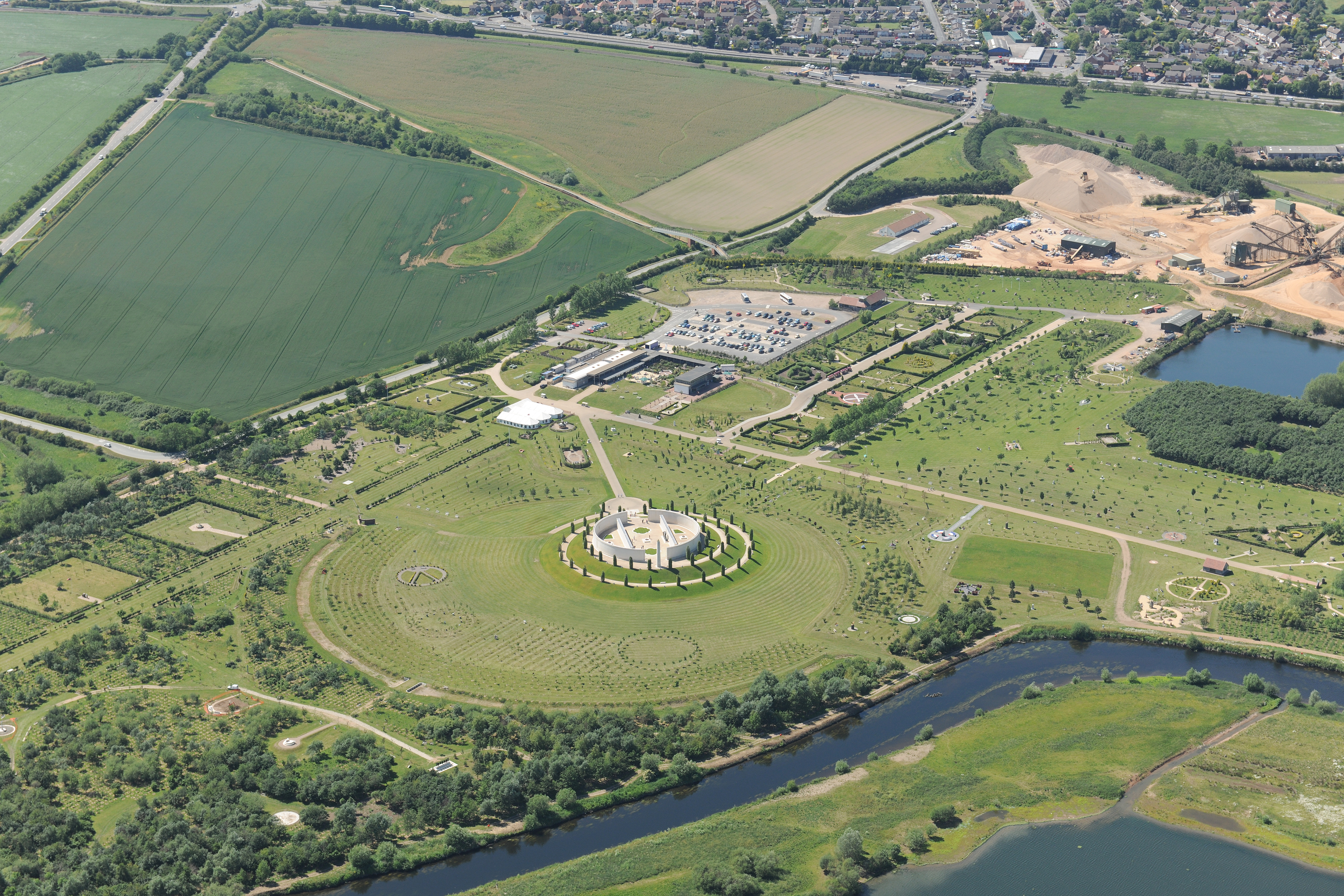 The National Memorial Arboretum, Alrewas, England. Taken by the West Midlands Police helicopter.